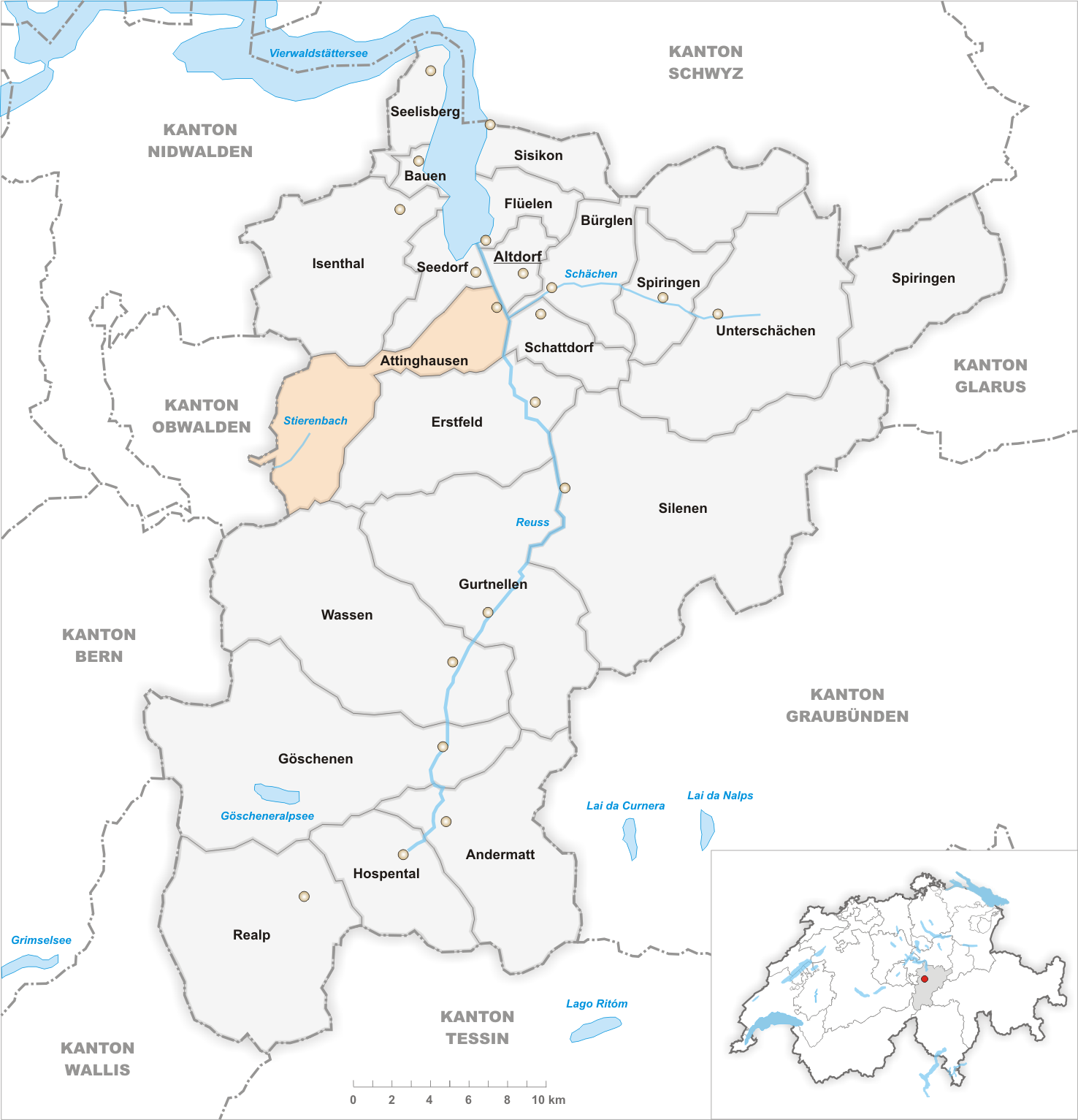 Municipality Attinghausen